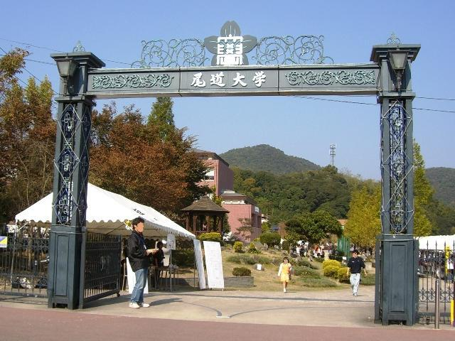 The main gate of Onomichi University. Located in Onomichi, Hiroshima, Japan. Photograph taken by the original uploader in Nov. 2006. The university was renamed Onomichi City University in 2012.